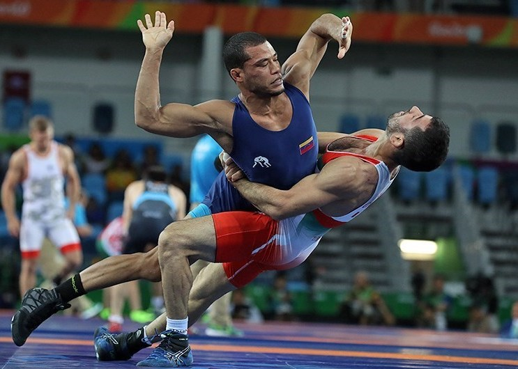 2016 Summer Olympics, Greco-Roman Wrestling 66 kg - Shmagi Bolkvadze v Omid Norouzi